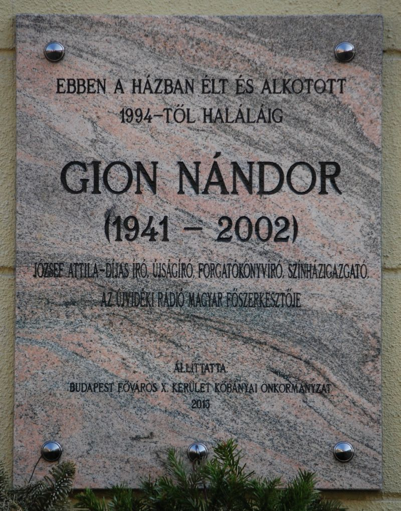 Nándor Gion commemorative plaque in Budapest District X, Kőrösi Csoma Alley No 3.